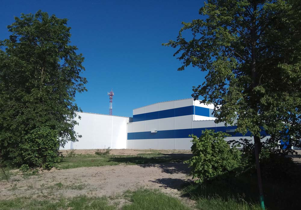 Large parts precision machining, and R&D hall.